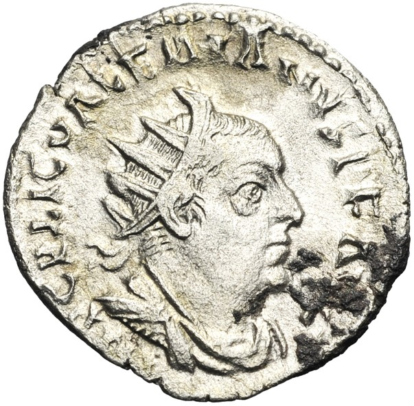 Valerian Ant